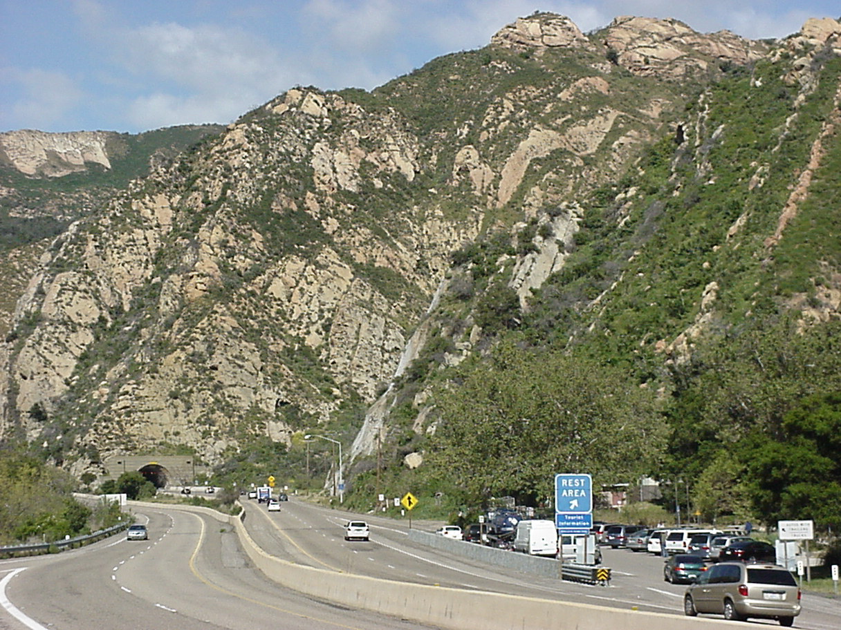 Gaviota Rest Area on United States highway 101 looking northbound through Gaviota Pass in the Santa Ynez Mountains of Santa Barbara County, California.